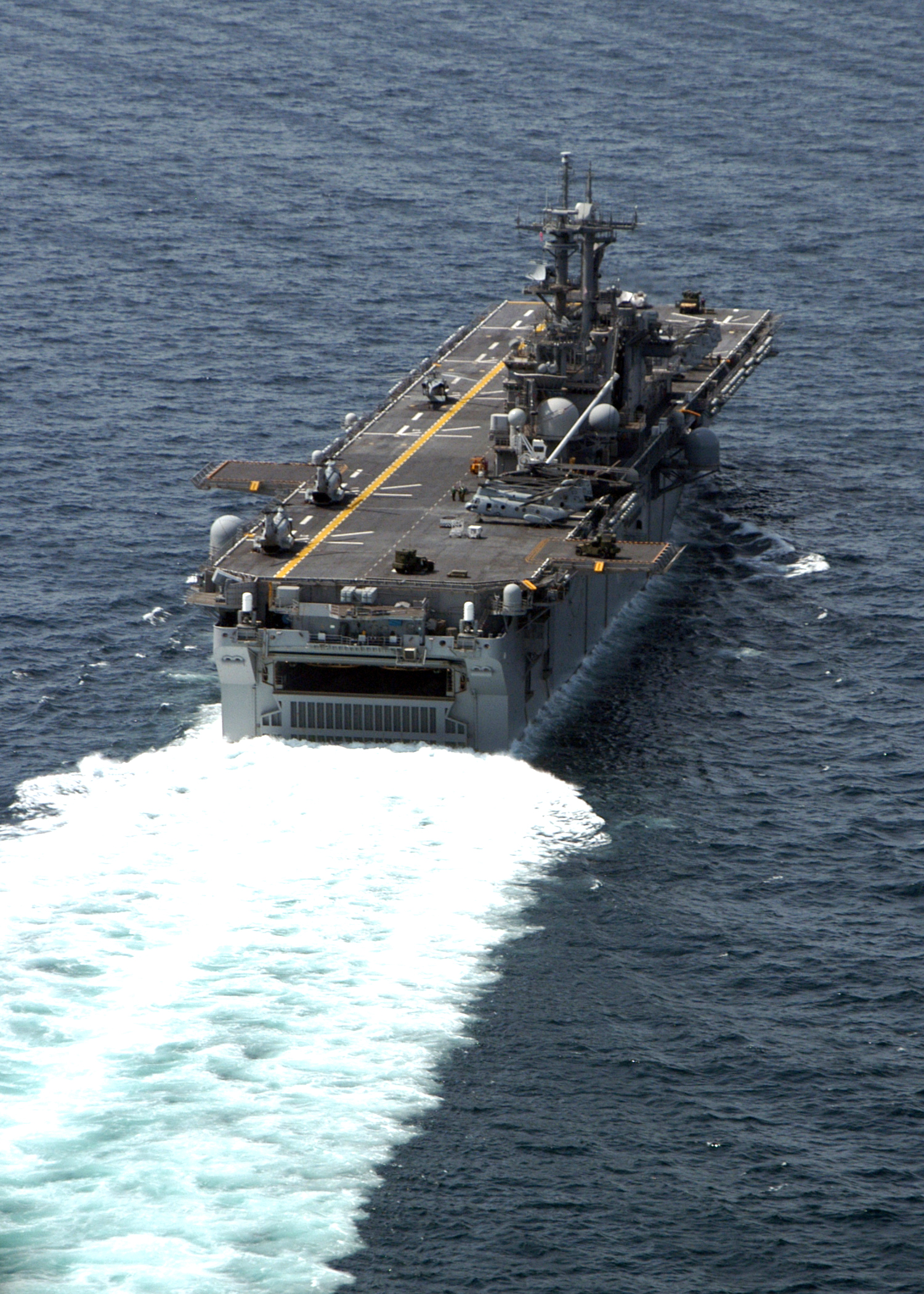 Bab Al Mandeb (July 1, 2004) - The amphibious assault ship USS Kearsarge (LHD-3) transits the Bab Al Mandeb after departing the Red Sea and into the Gulf of Aden. Kearsarge is surge deployed to transport elements of the 24th Marine Expeditionary Unit (MEU) to the Central Command Area of Responsibility in support of Operation Iraqi Freedom (OIF) and the global war on terrorism. U.S. Navy photo by Photographer’s Mate 3rd Class Angel Roman-Otero (RELEASED)